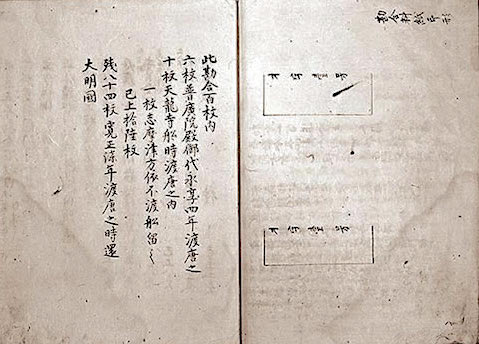 Sketch of a Ming-dynasty kangō or trading licence from Tenyo Seikei's journal Record of Entrance into Ming China in 1468, preserved at Myōchi-in, a subtemple of Tenryū-ji in Kyoto, Japan (Myochi-in Temple, Kyoto)